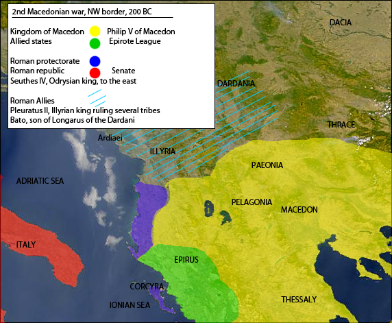 2nd Macedonian War,200 BC, NW border Own work data from Wilkes, J. J. The Illyrians, 1992,ISBN 0631198075, Macedonia and the Aegean world c.200 B.C. by Raymond Palmer Blank map,nasa